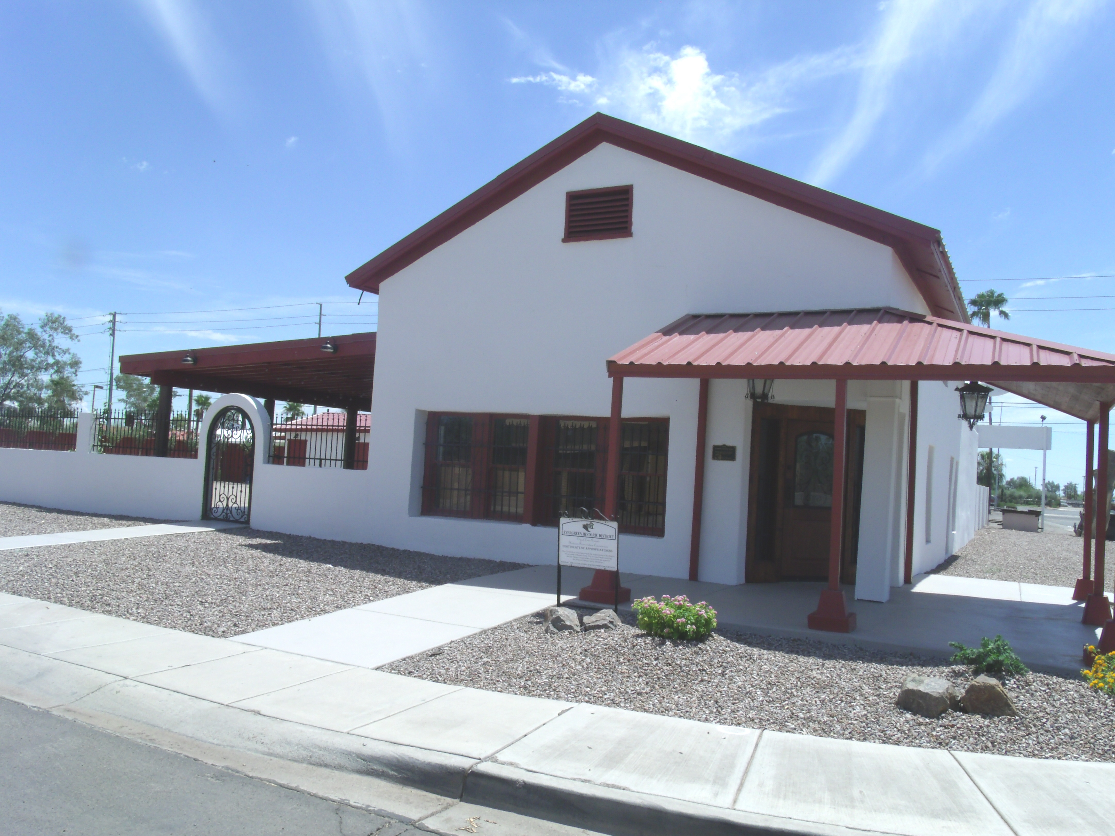 The Johnson's Grocery Store was built in 1907 and is located at 301 N. Picacho St. This building first served as a grocery store, first operated by J.G. Johnson and then by Wong Hong Chin. From 1940 to 1945, the building served at the city's first do-it-yourself laundry. It's currently in use as a restaurant. . It was listed in the National Register of Historic Places in 1985, reference #85000885.